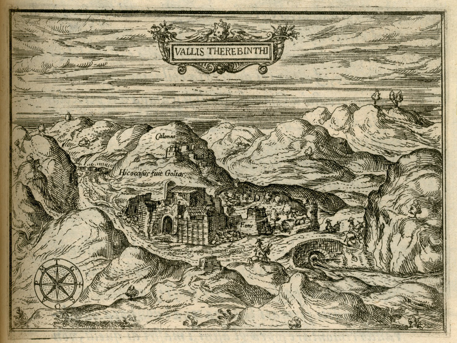 Jean Zuallart. Il devotissimo viaggio di Gerusalemme fatto, & descritto in sei libri dal Sig. Giovanni Zuallardo, Cavaliero del Santiss Sepolcro di N.S. l'anno 1586, Rome, F. Zanetti & Gia Ruffinelli, MDLXXXVII (1587)